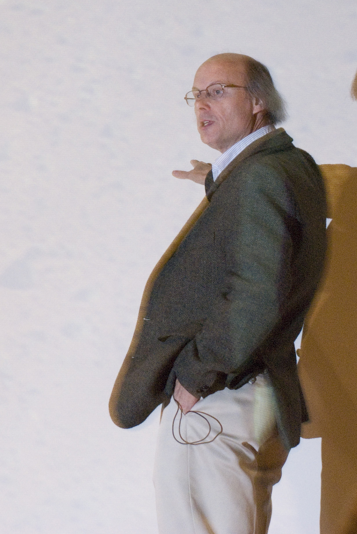 Bjarne Stroustrup at Kent State University on November 9, 2007 at an ACM meeting.